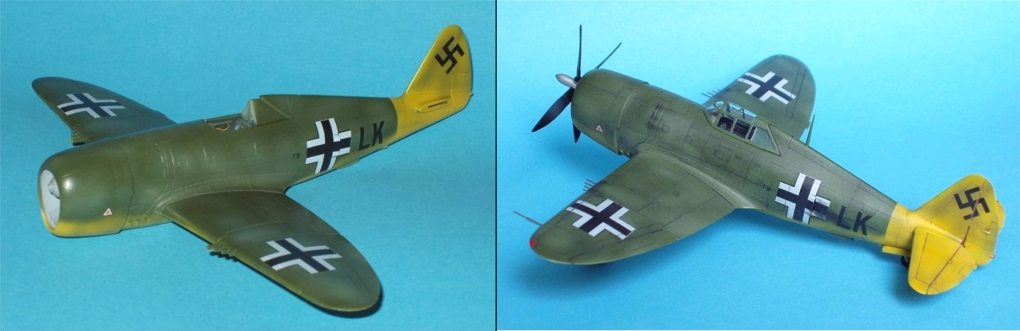 P47 Thuderbolt with german markings